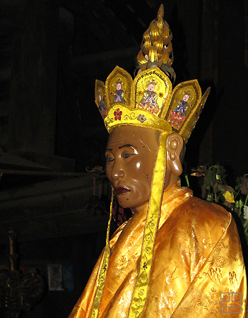 From full body statue Tu-dao-Hanh Zen master in the temple. This is one of three statues at the temple of The Master Dao Hanh (holy lives, lives of King, Buddha's life)